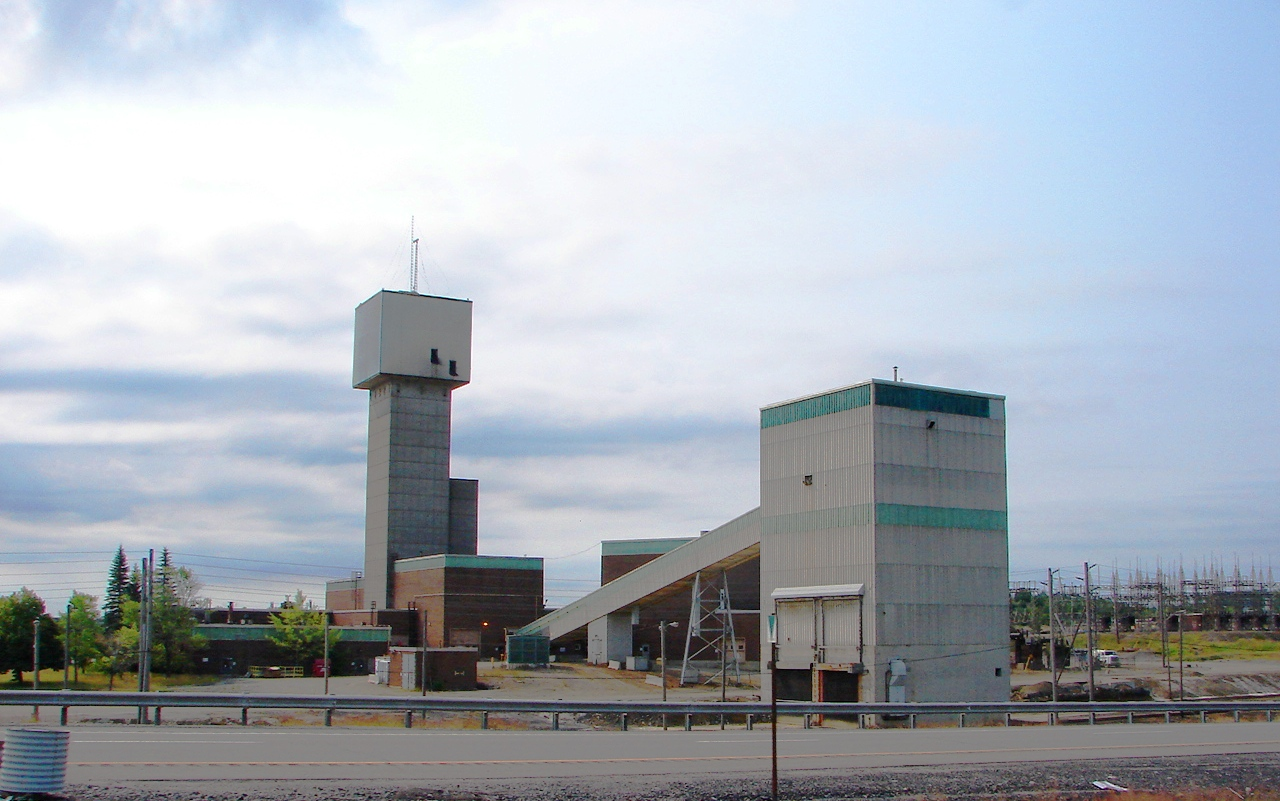 Copper Cliff South Mine of Vale (formerly INCO), Copper Cliff, Ontario, Canada